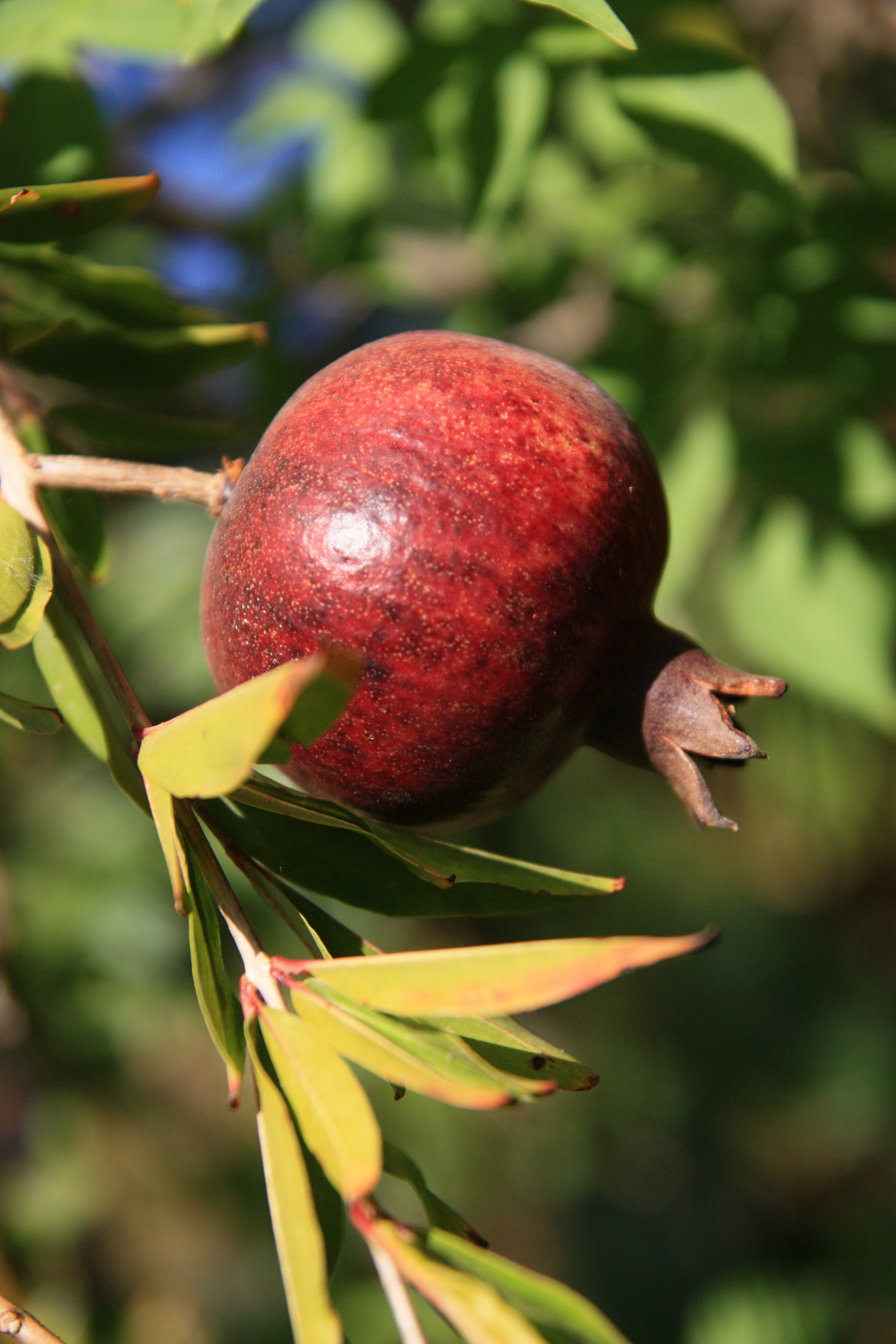 fruit trees